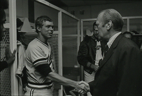 The photo contact sheet, identified as B0656 by the White House Photographic Office (WHPO), is housed at the Gerald R. Ford Presidential Library, a branch of the National Archives and Records Administration (NARA). This file is a 200 dpi photo contact sheet having images from roll of film B0656 of the August 9, 1974 - January 20, 1977 Gerald R. Ford White House Photographic Office Series A0001-A9999 and B0001-B2886 photographs. The date on the photo contact sheet is the date the roll of film was processed, not necessarily the date the photographs were taken. See table below for additional details.